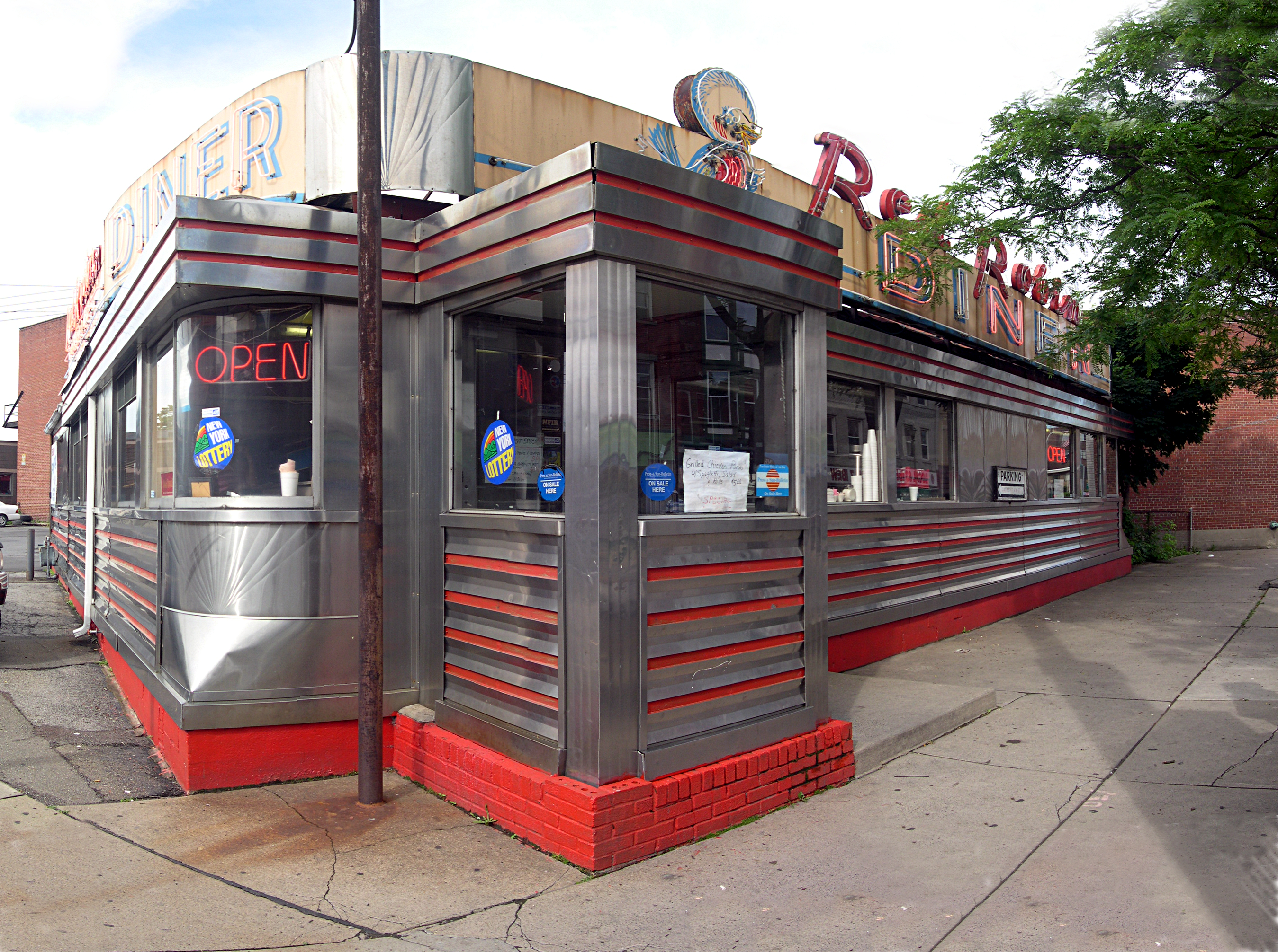 Red Robin Diner at the corner of Main & Broad Streets in Johnson City, NY